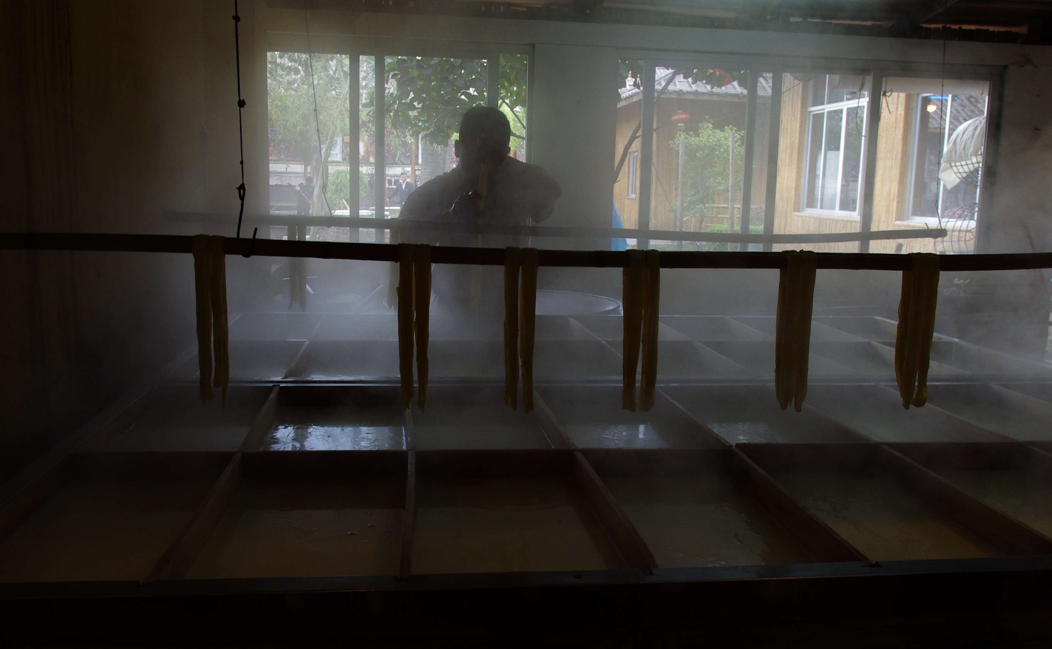 soy milk skin maker China